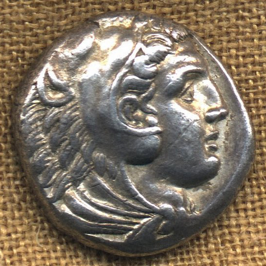 Tetradrachm with Head of Heracles right, clad in Nemean lion scalp headdress